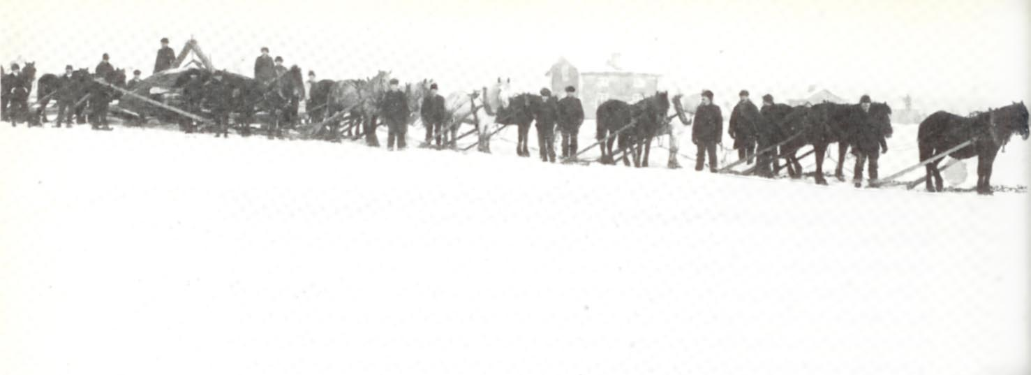 Transport of an armoured turret that is to be mounted on one of the forts of Boden Fortress.